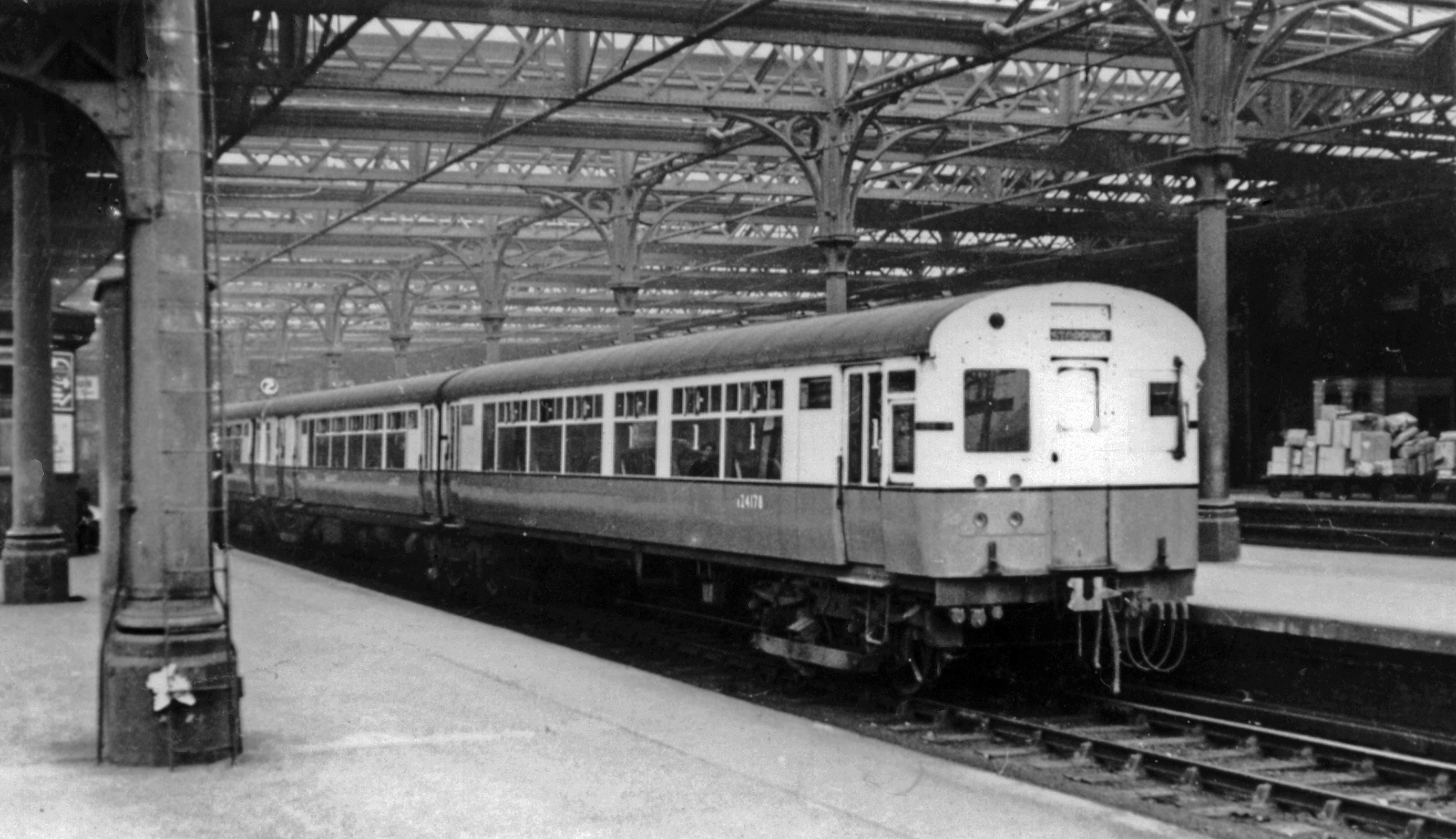 North Tyneside 2-Car EMU at Newcastle Central, 1950View SW on Platform 4 in the largely separate north end terminal section (Platforms 1 - 7) of the station, to Platform 3; there stands an electric (600v third-rail) North Tyneside train of 1937-vintage LNER twin-unit stock.